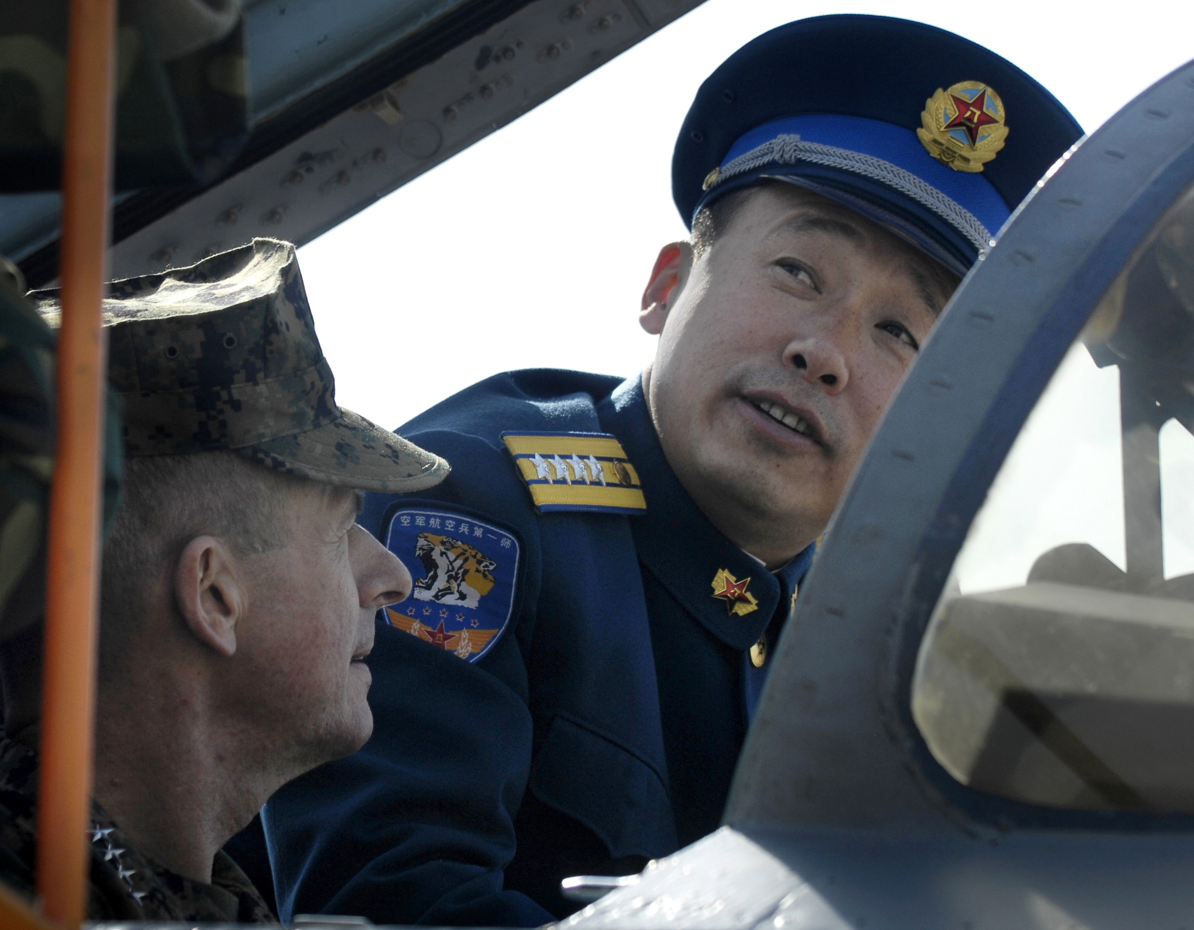 Senior Chinese Air Force officers address questions from the Chairman of the Joint Chiefs of Staff, Marine Gen. Peter Pace, while he sits in the cockpit of the Chinese Su-27 Flanker fighter at Anshan Airfield, China Mar. 24, 2007. DoD photo by Staff Sgt. D. Myles Cullen (released)